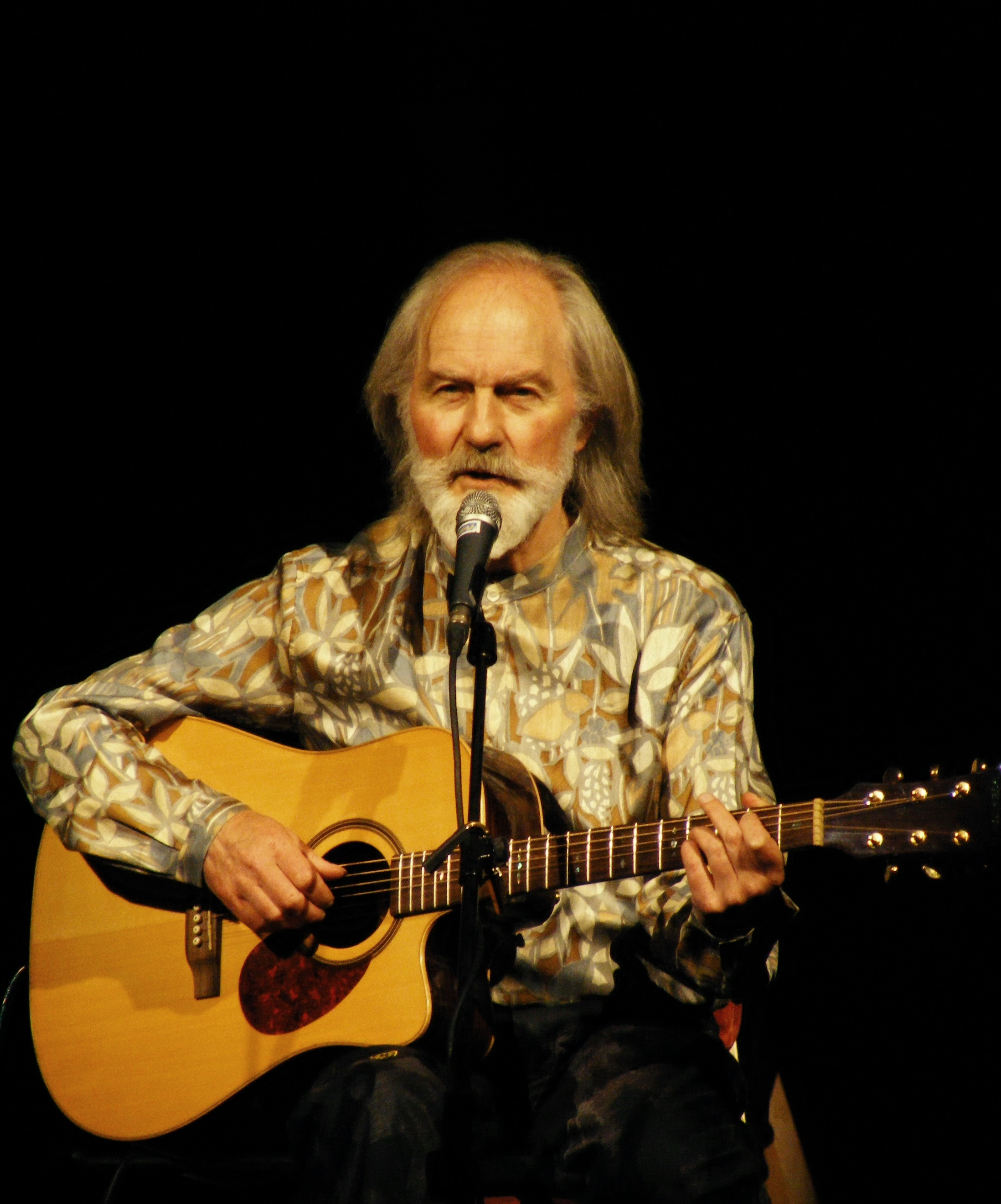 Roy Harper at the Palace Theatre, Manchester, on Saturday the 18th of September 2010